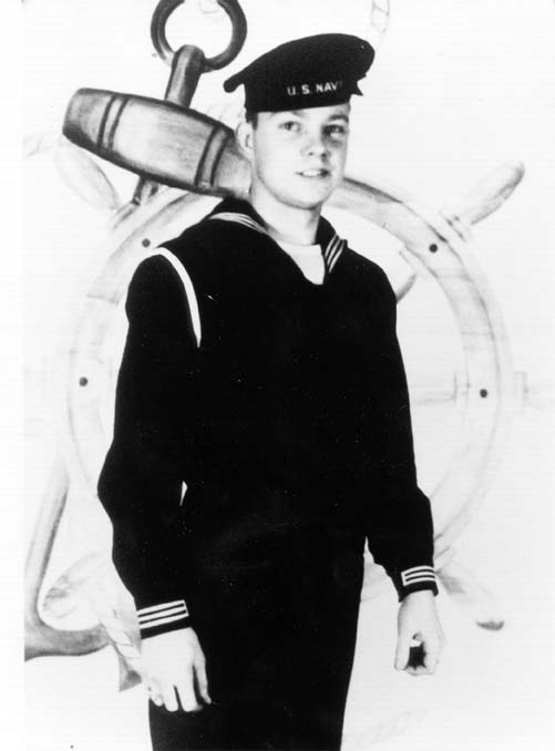 Depicted person: Richard De Wert – United States Navy Medal of Honor recipient